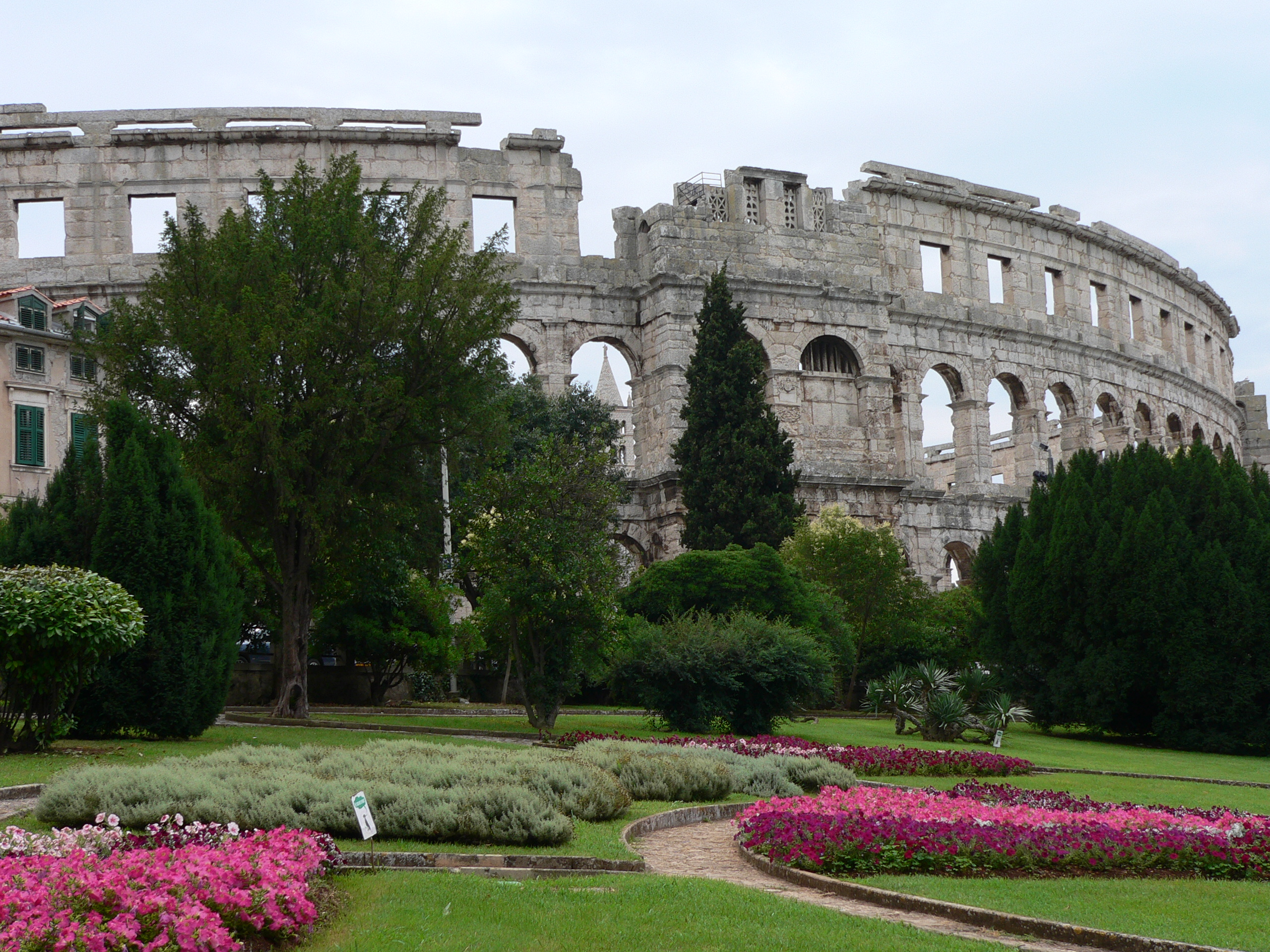 The Ancient Roman amphitheatre in Pula, Istria region (Croatia).